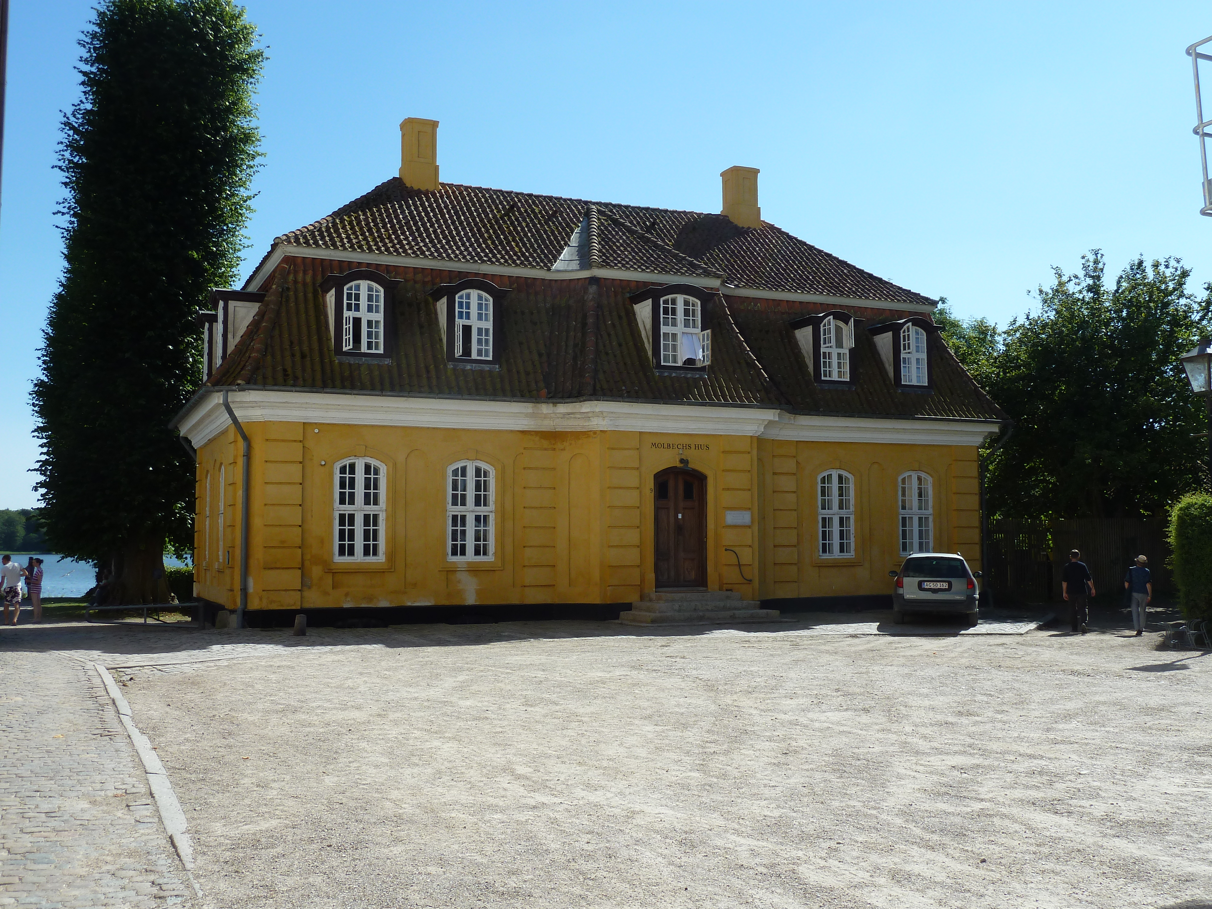 Molbechs Hus at Sorø Academy in Sorø, Denmark